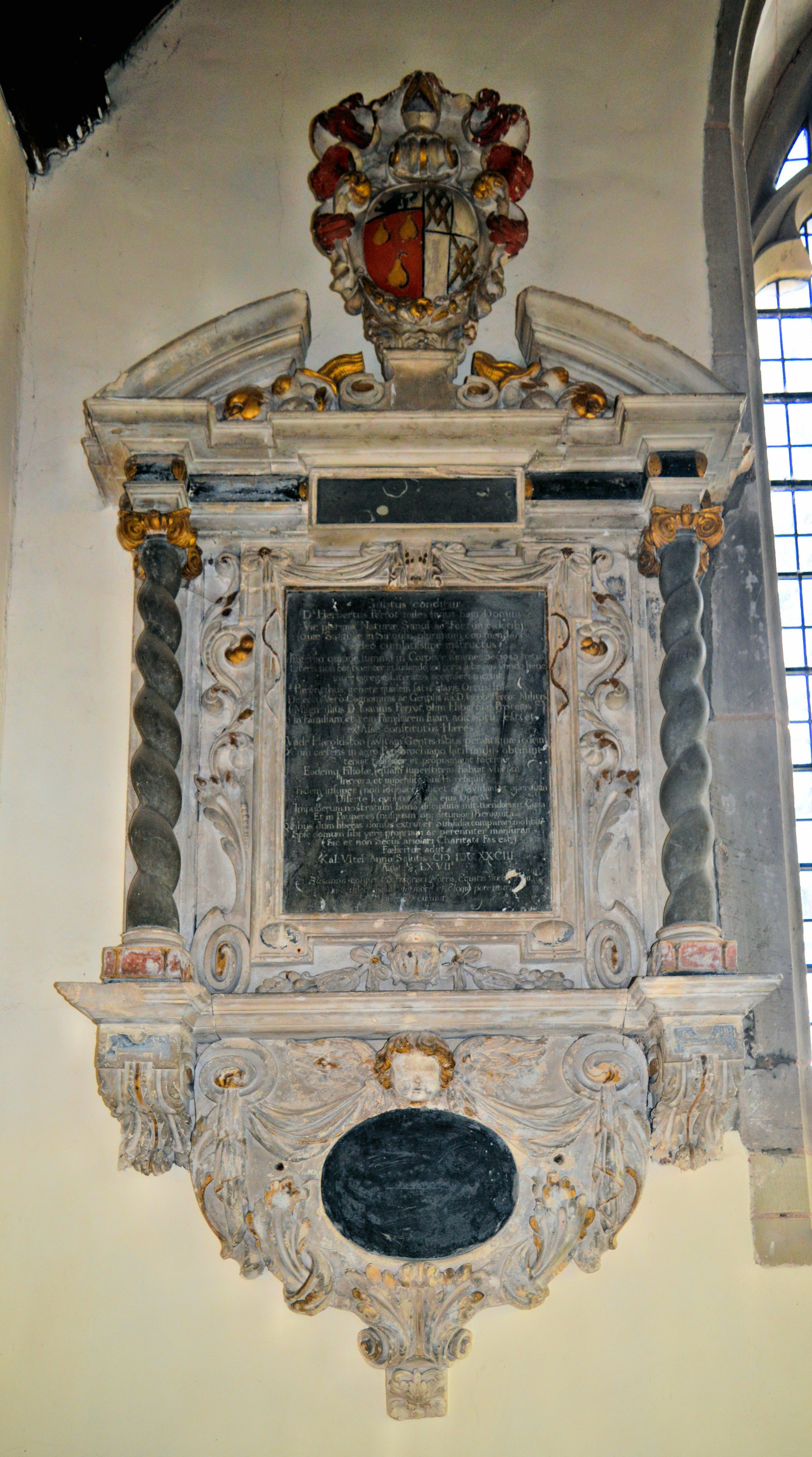 Monument to Sir Herbert Perrott (died 1683) St. Margaret's Church, Wellington, Herefordshire. He married (1) bef. 5 Sept. 1643, Jane (d. 9 Jan. 1667), da. and coh. of Thomas Lloyd of Cilciffeth, Pemb., 3s. d.v.p.; (2) Hester, da. of George Barlow of Slibech/Slebech, Pemb., (and sister of Sir John Barlow) 1da.; (3) 1668, Susanna, da. of Sir Francis Norreys of Weston on the Green, Oxon., s.p. Arms: Perrott (Gules, three pears or on a chief argent a demi-lion issuant sable armed of the field) impaling Norreys (?), here shown as Quarterly, in the first and fourth quarters a fret sable; however the arms of Norreys of Weston on the Green, Oxon are given in Burke's General Armory 1884 [1] as : Quarterly argent and gules, a fess azure in the second and third quarters a fret or, as for Norreys of Rycot (Earl of Berkshire, Baron Norreys).